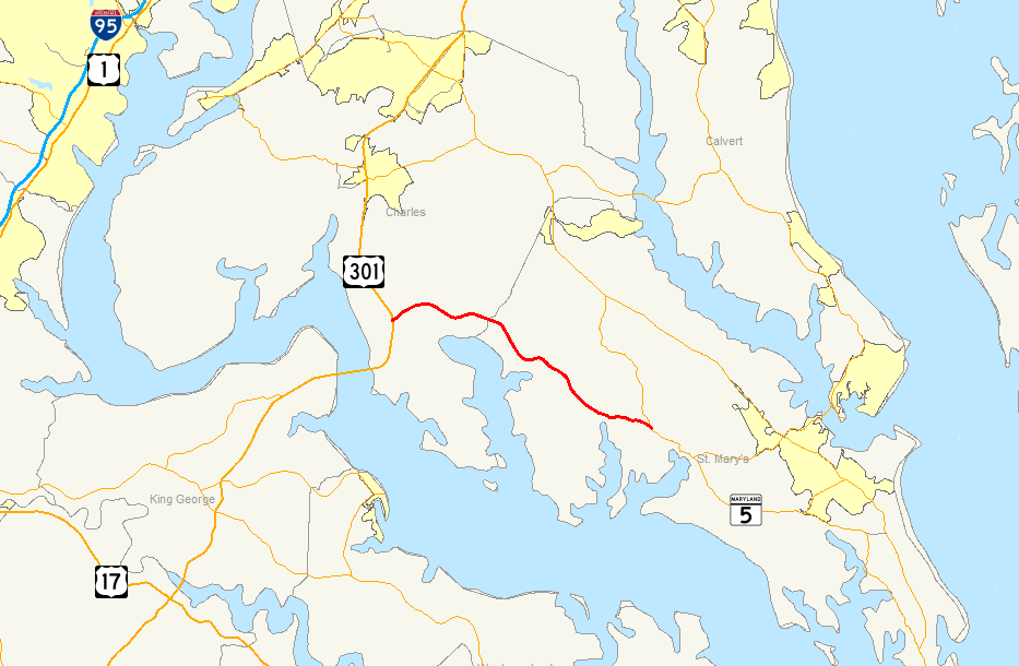 Map of Maryland Route 234